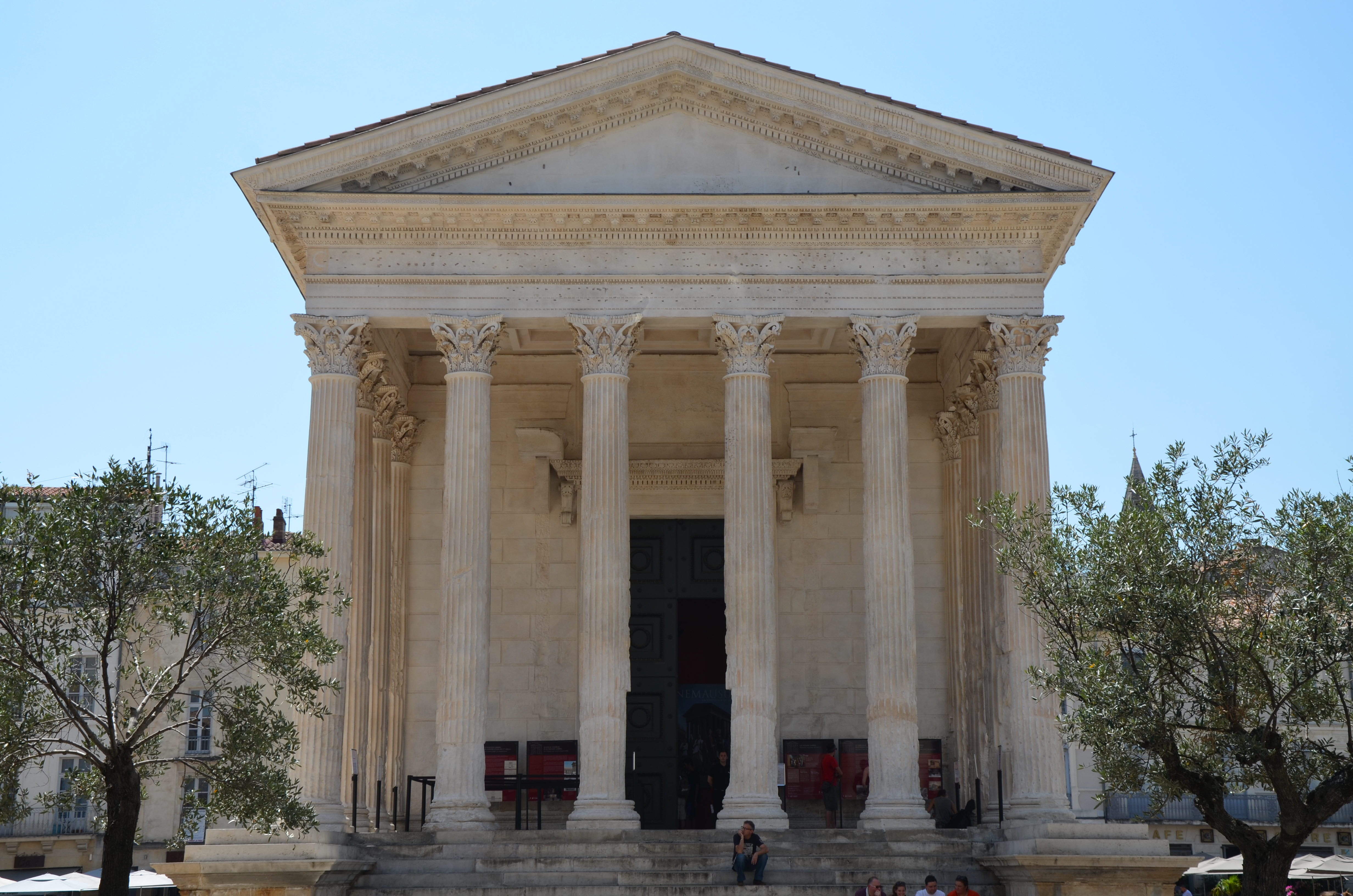 The Maison Carrée, 1st century BCE Corinthian temple commissioned by Marcus Agrippa, Nemausus (Nîmes, France)